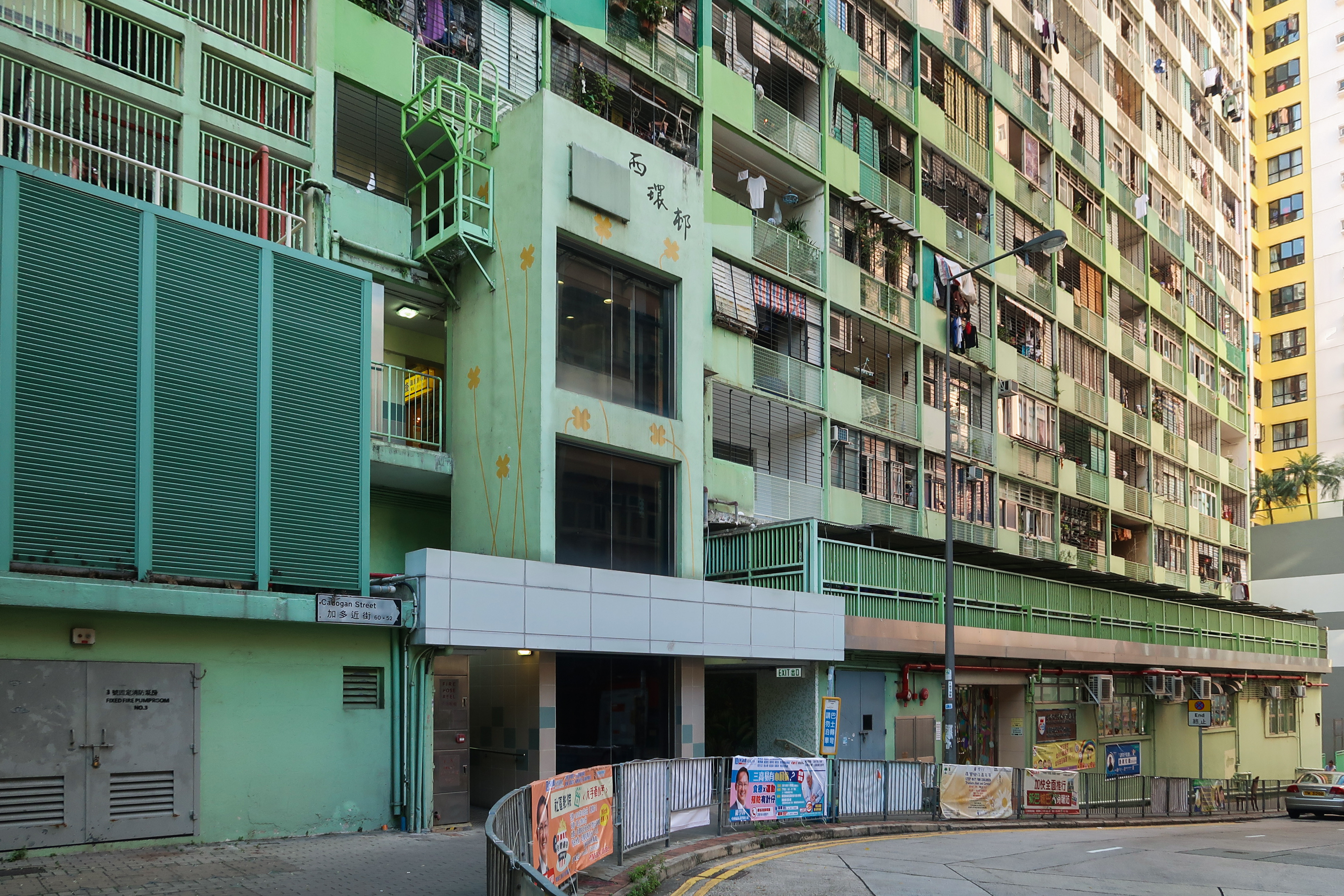 Sai Wan Estate East Terrace Entrance